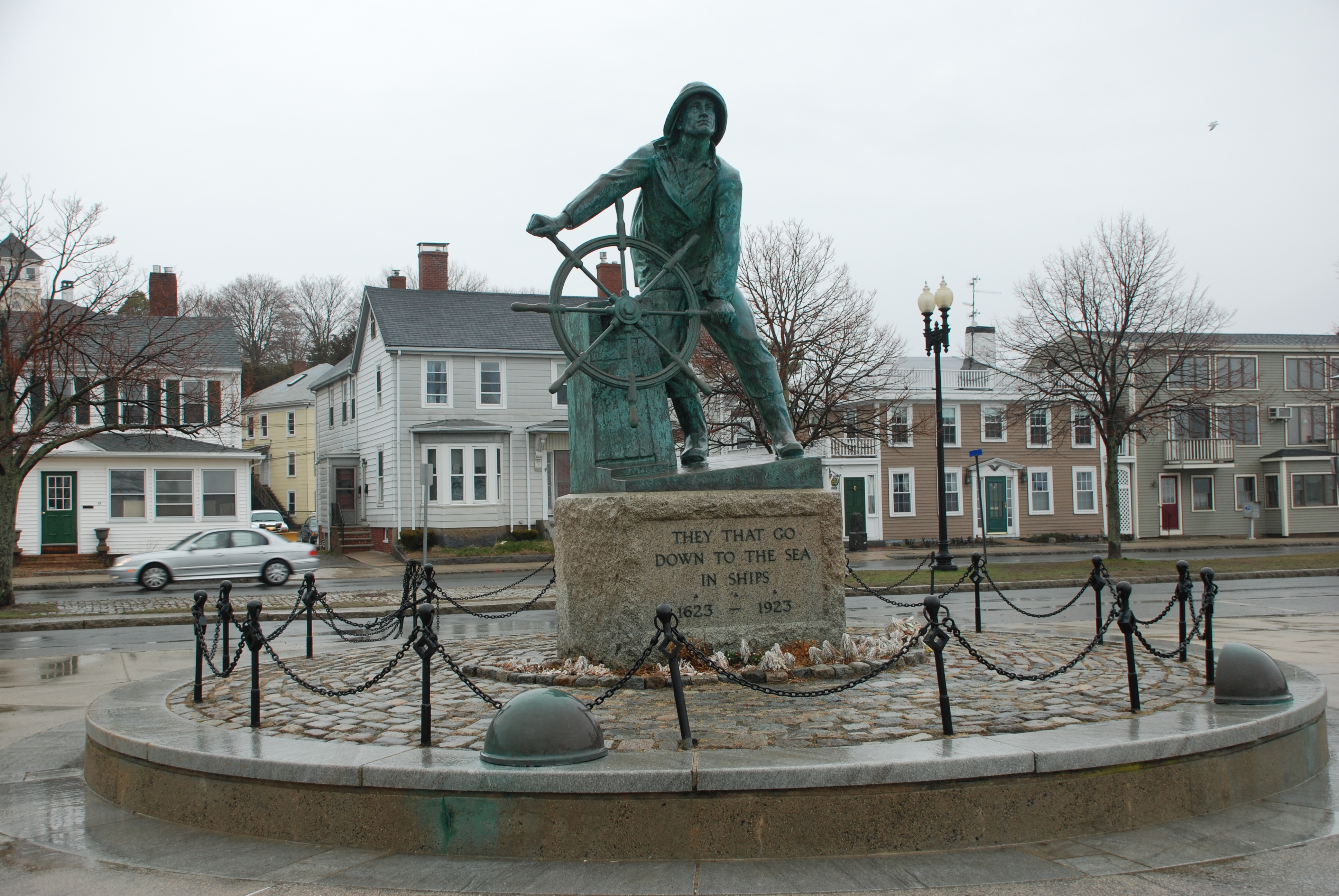 Fisherman's Memorial in Gloucester (Massachusetts, USA) on a rainy day